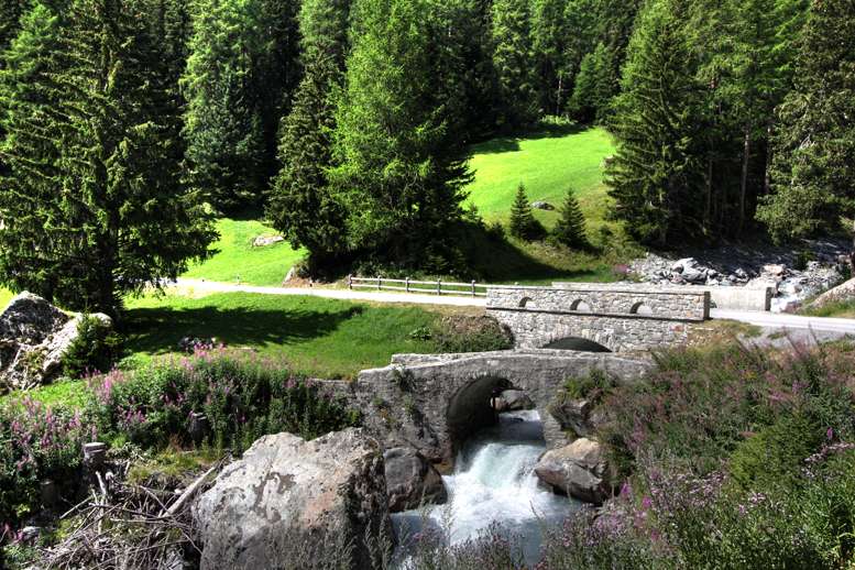 The road to Ftan, Switzerland